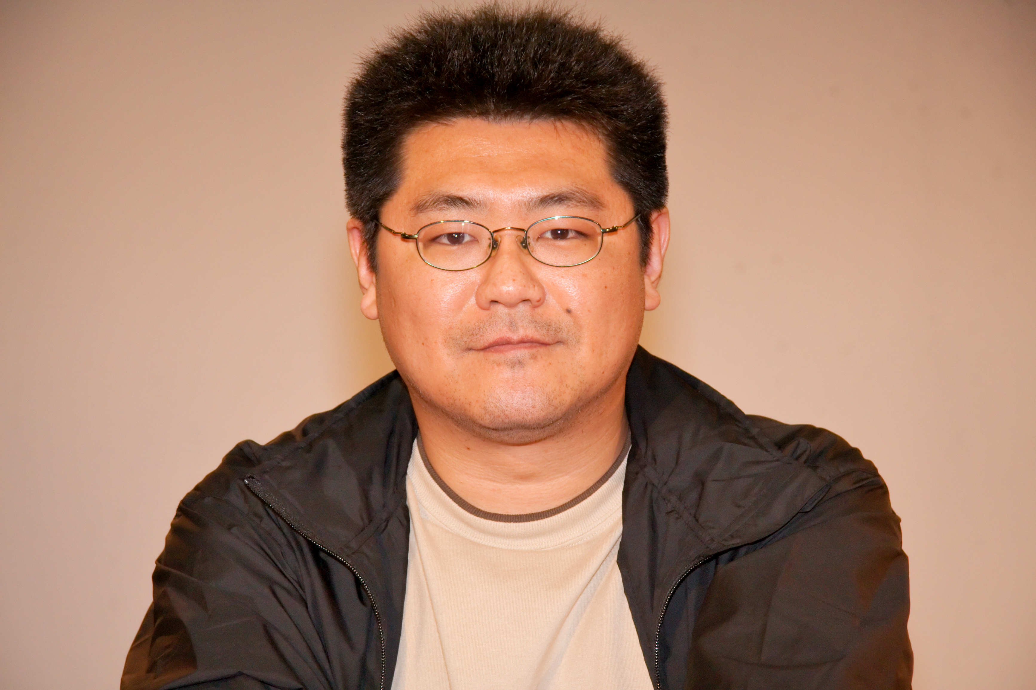 Autograph session with Bow Ditama at Chibi Japan Expo 2008 (Paris, France).